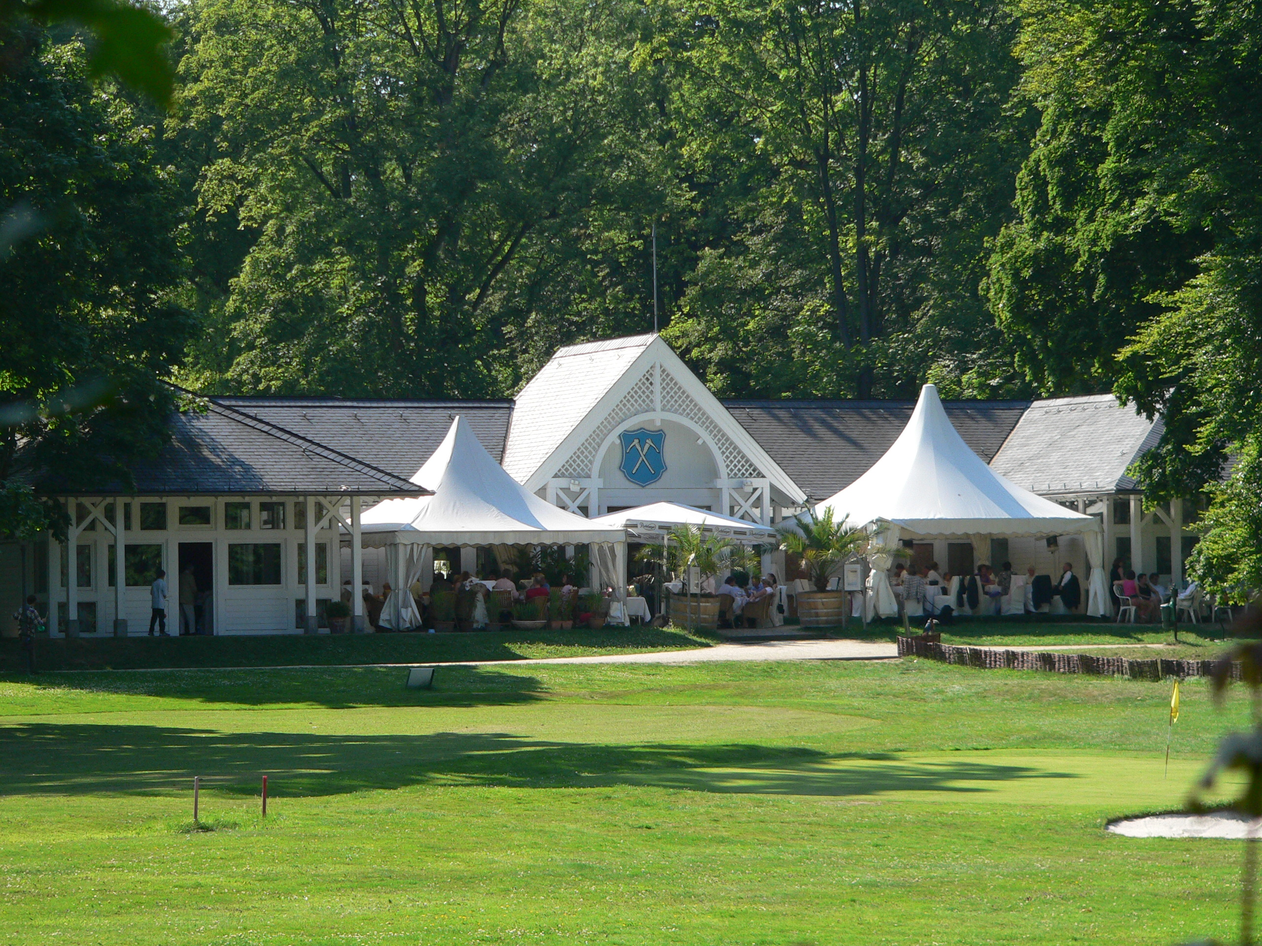 Bad Homburg Golf Club Summary Bad Homburg Golf Club